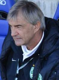 Nenad Starovlah at GSP Stadium